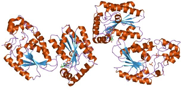 Cartoon representation of the molecular structure of protein registered with 1k6m code.